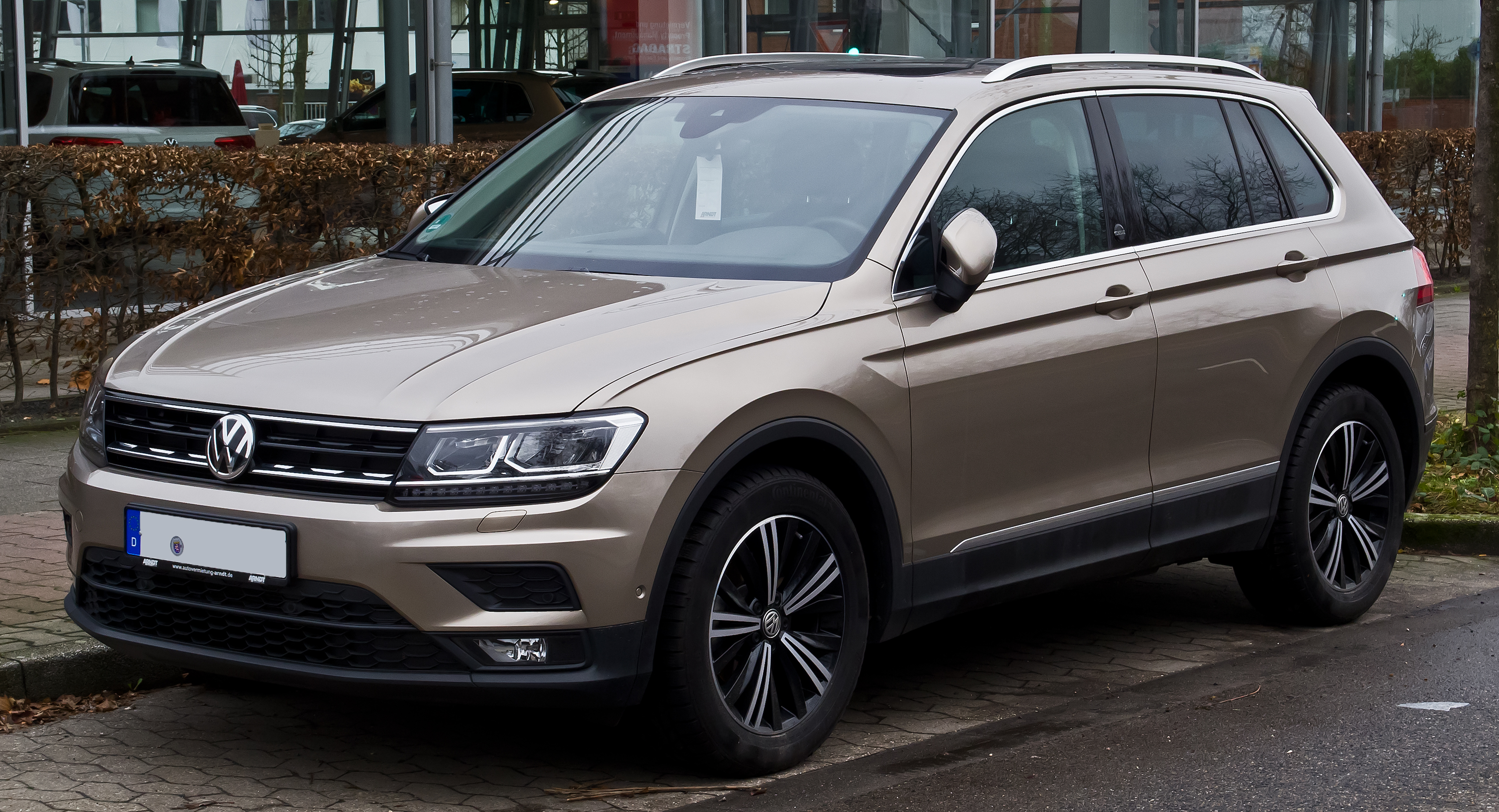 VW Tiguan 2.0 TSI BlueMotion Technology 4MOTION Sound (II)